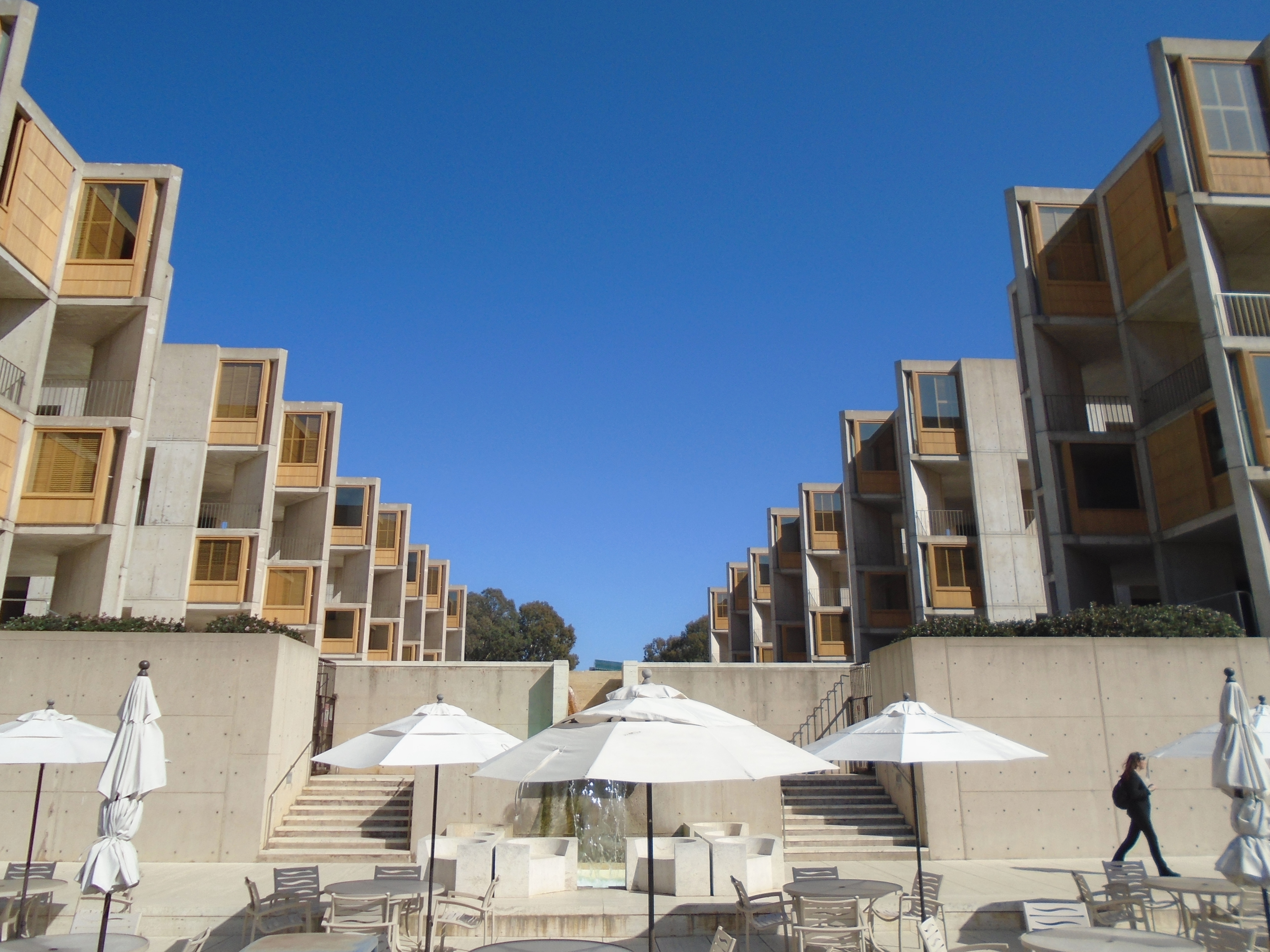 The view from the west at ground level of the Salk Cafe and the Salk Institute at 10010 North Torrey Pines Road in La Jolla, San Diego, California. The institute was founded in 1960 by Jonas Salk, and its headquarters was built in 1966, and was designed by Louis Kahn in the Brutalist style.